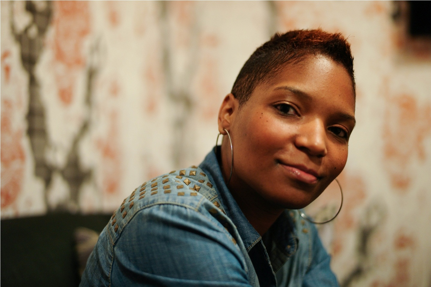 Felicia Pride 2016